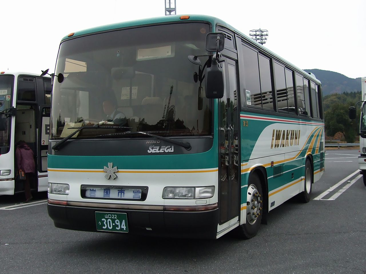 Company:Iwakuni City transportation bureau Use:tour bus Car license:山口22 う 3094 Chassis manufacturer:Hino Motors Coachbuilder:Hino Body Place:at Kudamatsu Service Area, Sanyo Expressway, Kudamatsu City, Yamaguchi, Japan